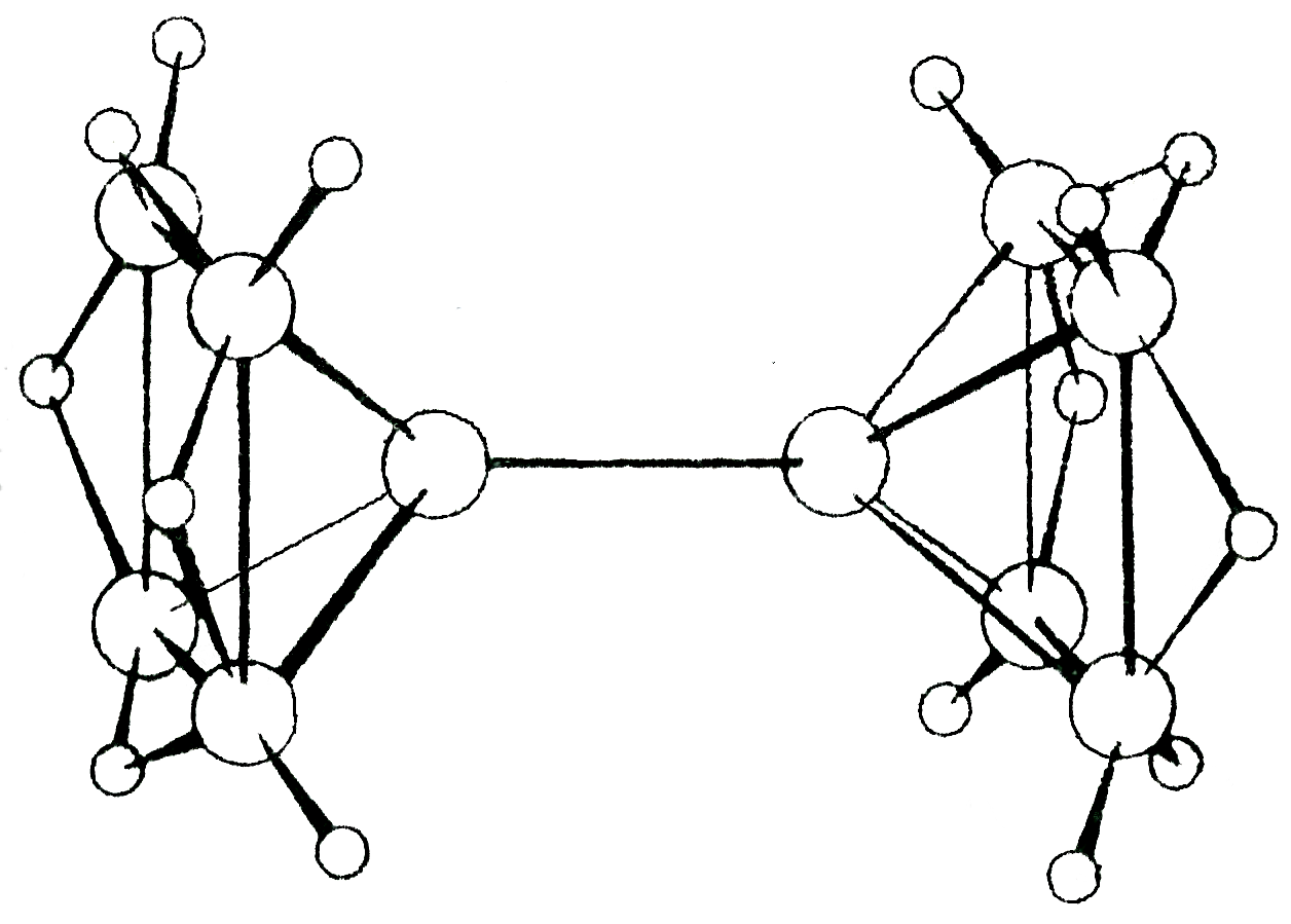 Atomic structure of B10H16 a boron hydride. Shown in the middle is the discovery in 1961 of a bond directly between two boron atoms without terminal hydrogens, a feature not previously seen in other boron hydrides.